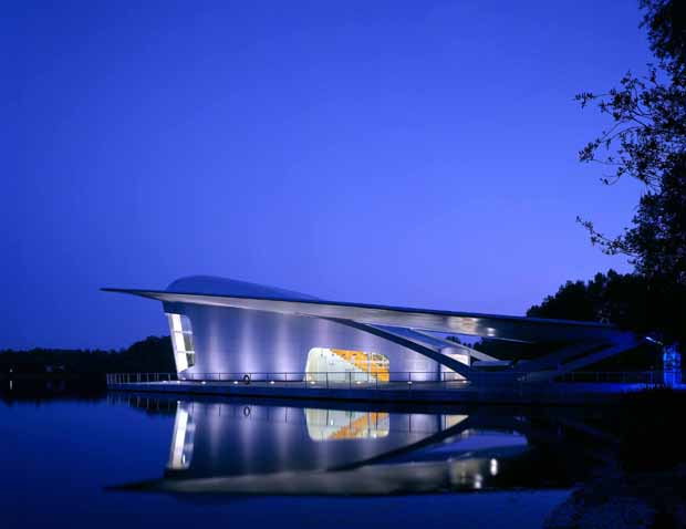 Asymptote, HydraPier, Haarlemmermeer, Netherlands